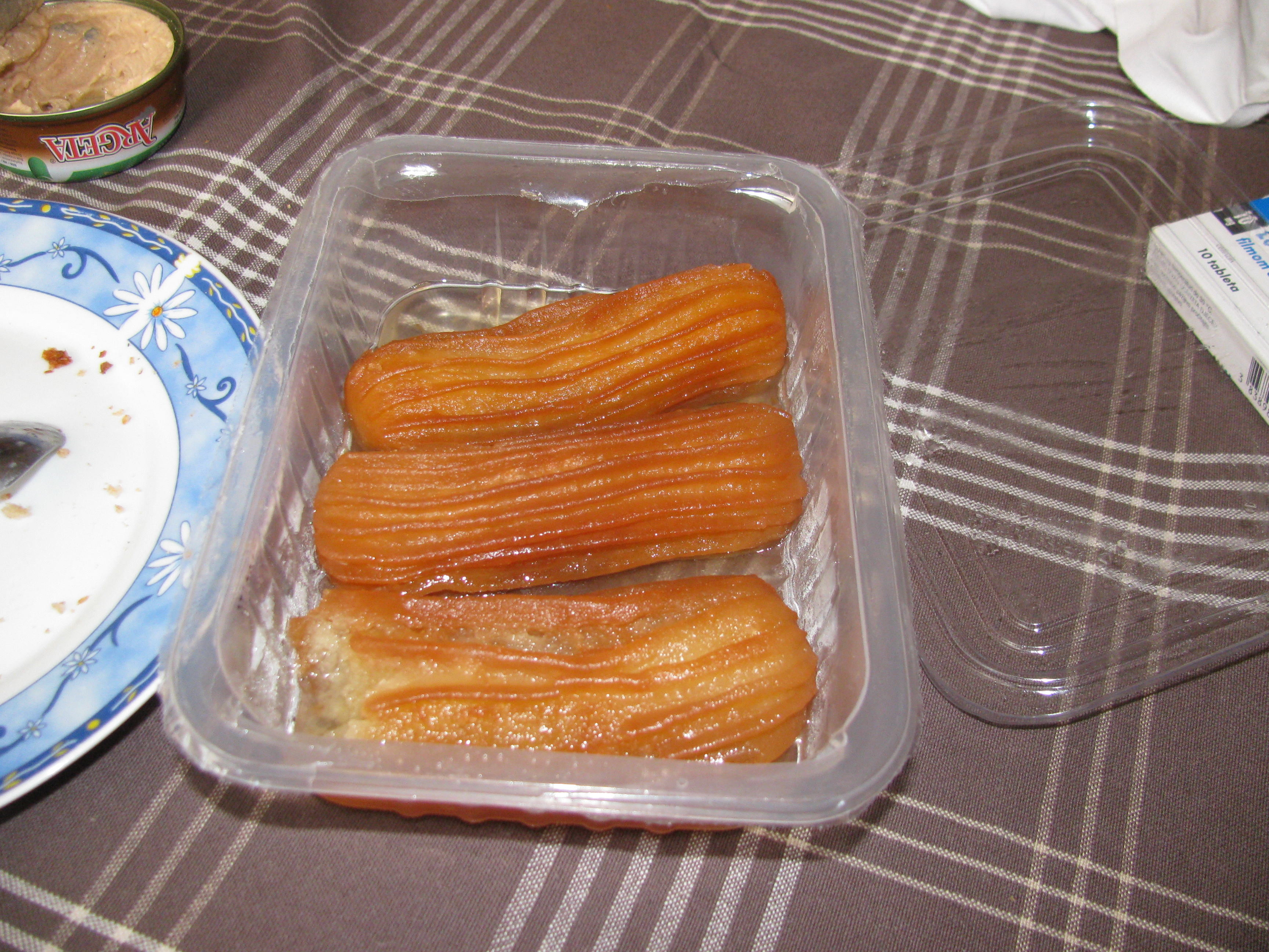 Bosnian tulumba